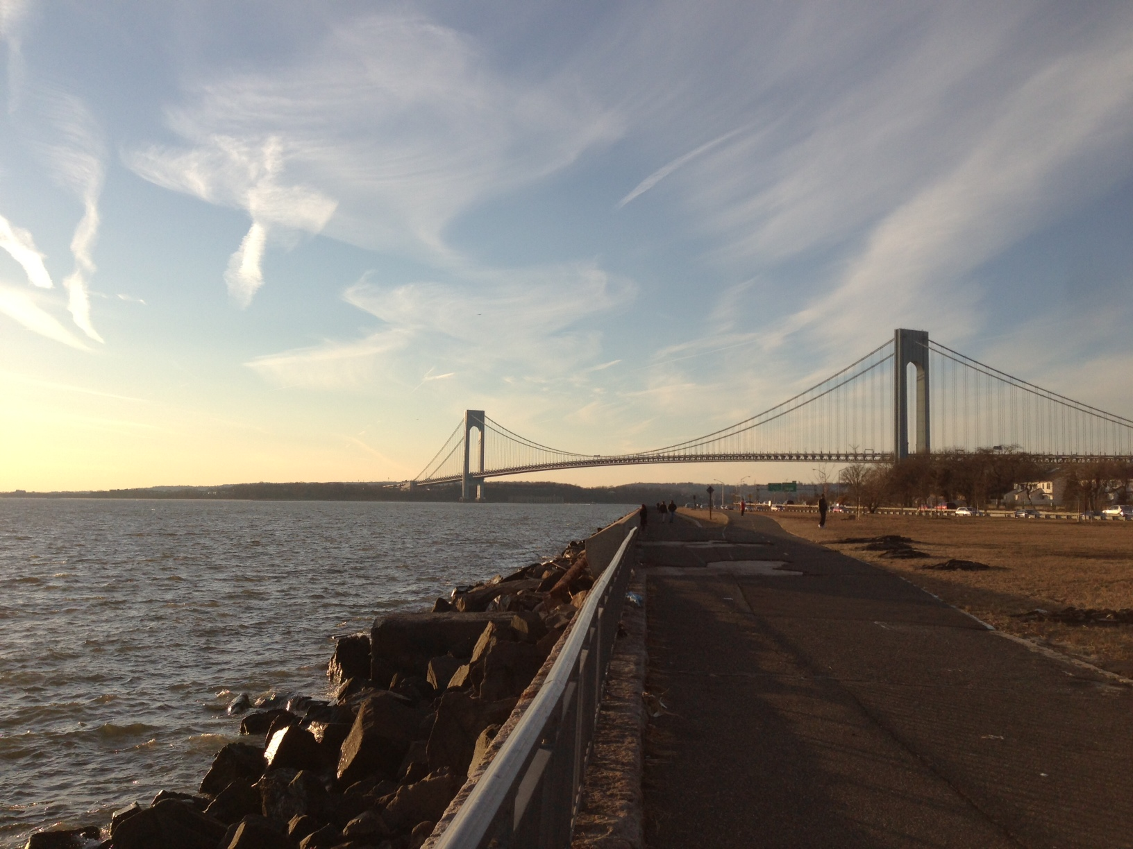 Verrazano Bridge, as seen from Brooklyn.